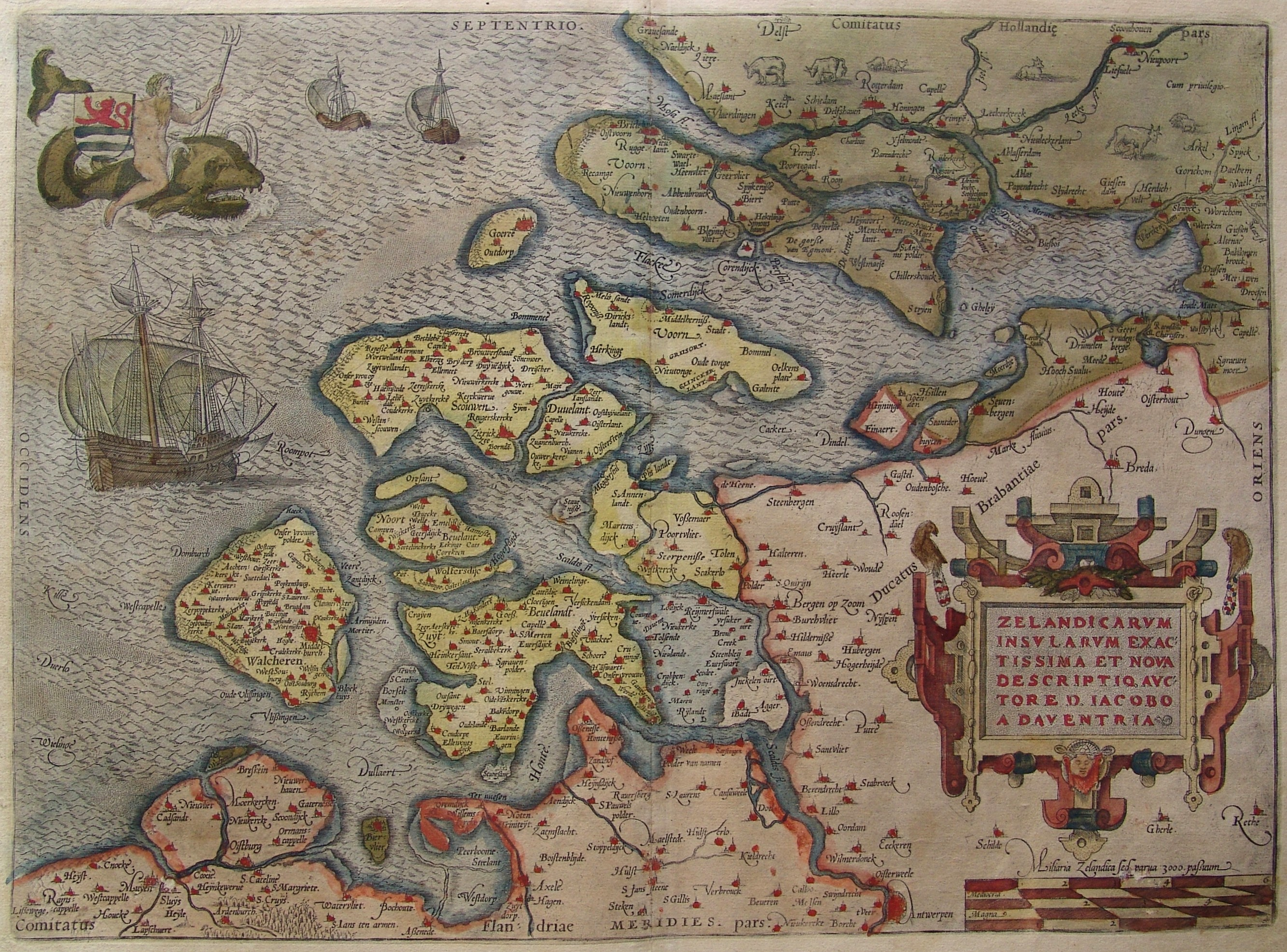 Zelandicarum Insularum Exactissima Et Nova Descriptio, Auctore D. Iacobo A Daventria (“New and highly exact description of the islands of Zeeland, by Jacob van Deventer”). Size: 34 × 47 cm.